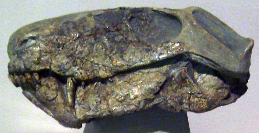 Cynariops robustus specimen MB.R.999 (formerly Aelurognathus sp.) skull at the Museum für Naturkunde, Berlin.